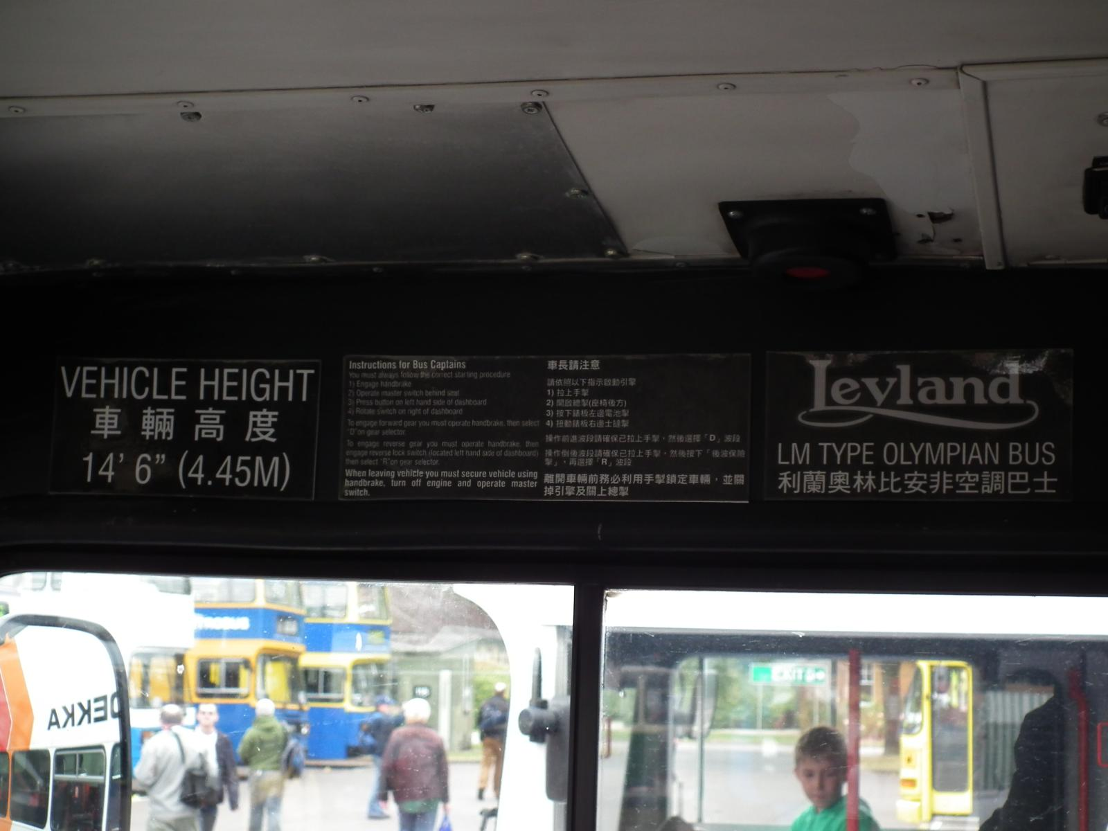 The interior of China Motor Bus LM10 (FW 3858, re-registered K481 EUX), a Leyland Olympian/Alexander RH, seen at Showbus 2012.